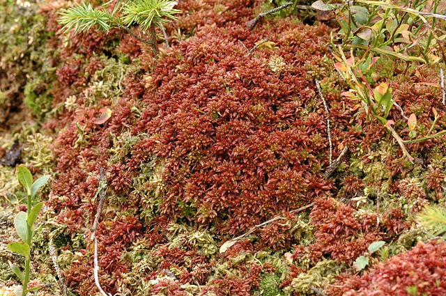 Picture taken in Commanster, Belgian High Ardennes . Species: Sphagnum magellanicum